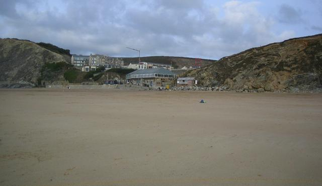 Taken by me